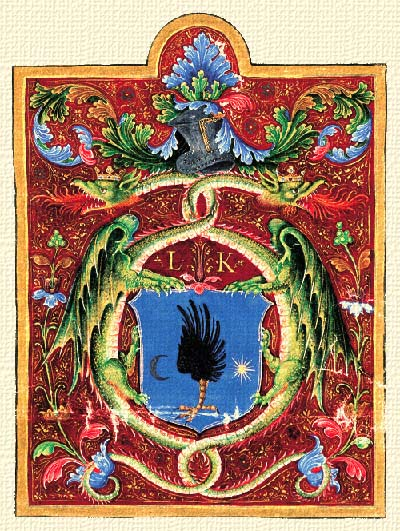 Coat of arms of Kanizsai family (Kanizsay László 1519).